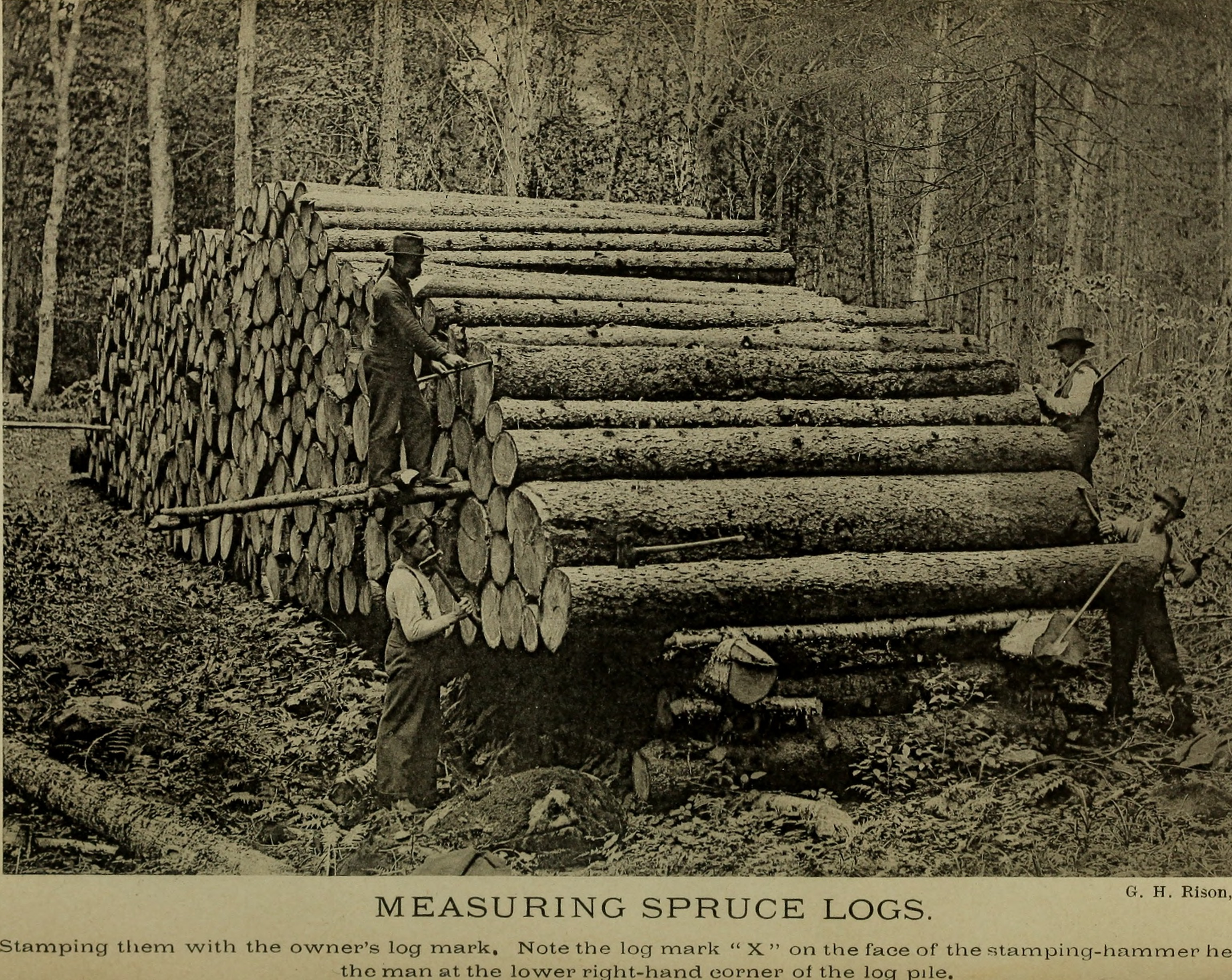 Title: Annual report of the Forest Commission of the State of New York Identifier: annualreportoffo1894newy Year: 1885 (1880s) Authors: New York (State). Forest Commission Subjects: Forests and forestry; Public lands Publisher: Albany : The Commission Text Appearing Before Image: ' Text Appearing After Image: '